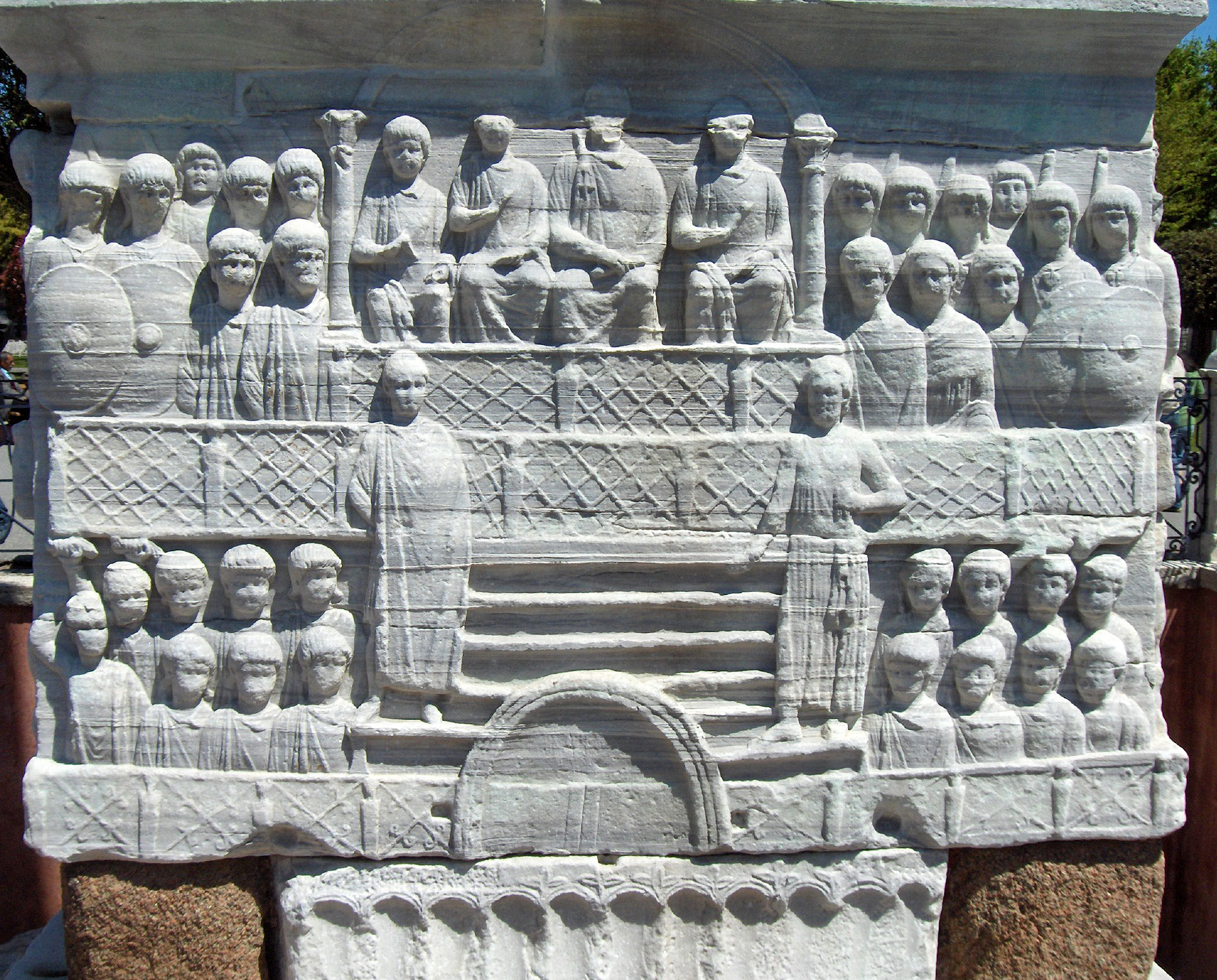 Hippodrome, base of the obelisk of Thutmose III; the emperor and his court; Istanbul, Turkey